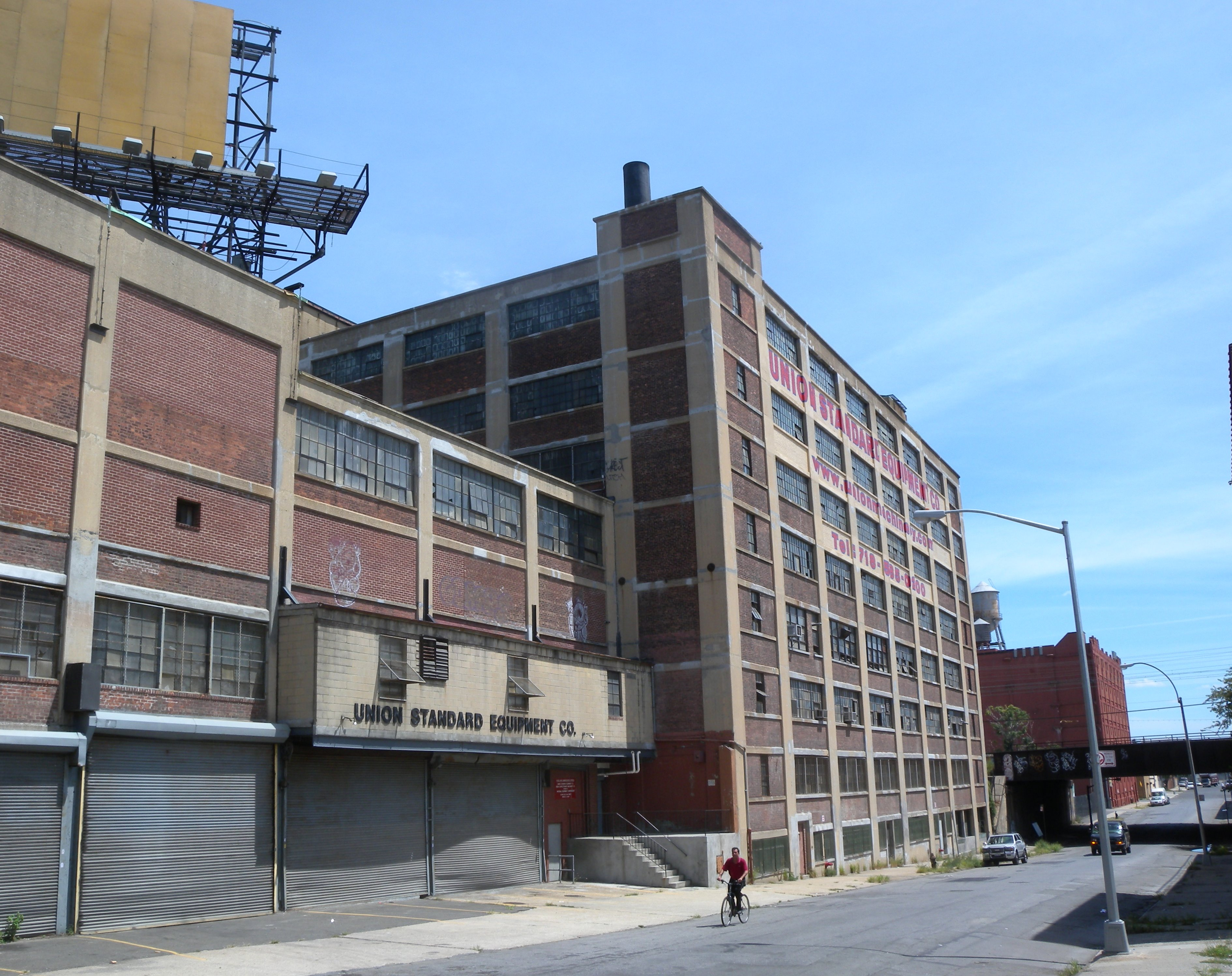 Looking east along 141st Street at Union Standard Equipment on a sunny midday.